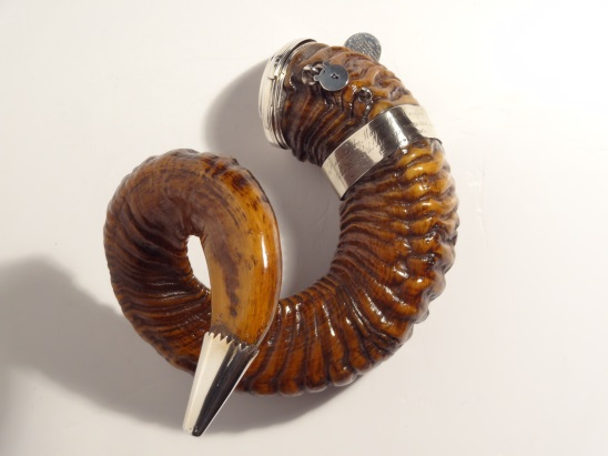 Ramshorn table snuff mull,cover set with oval agate, presented by Major J Campbell, 1803